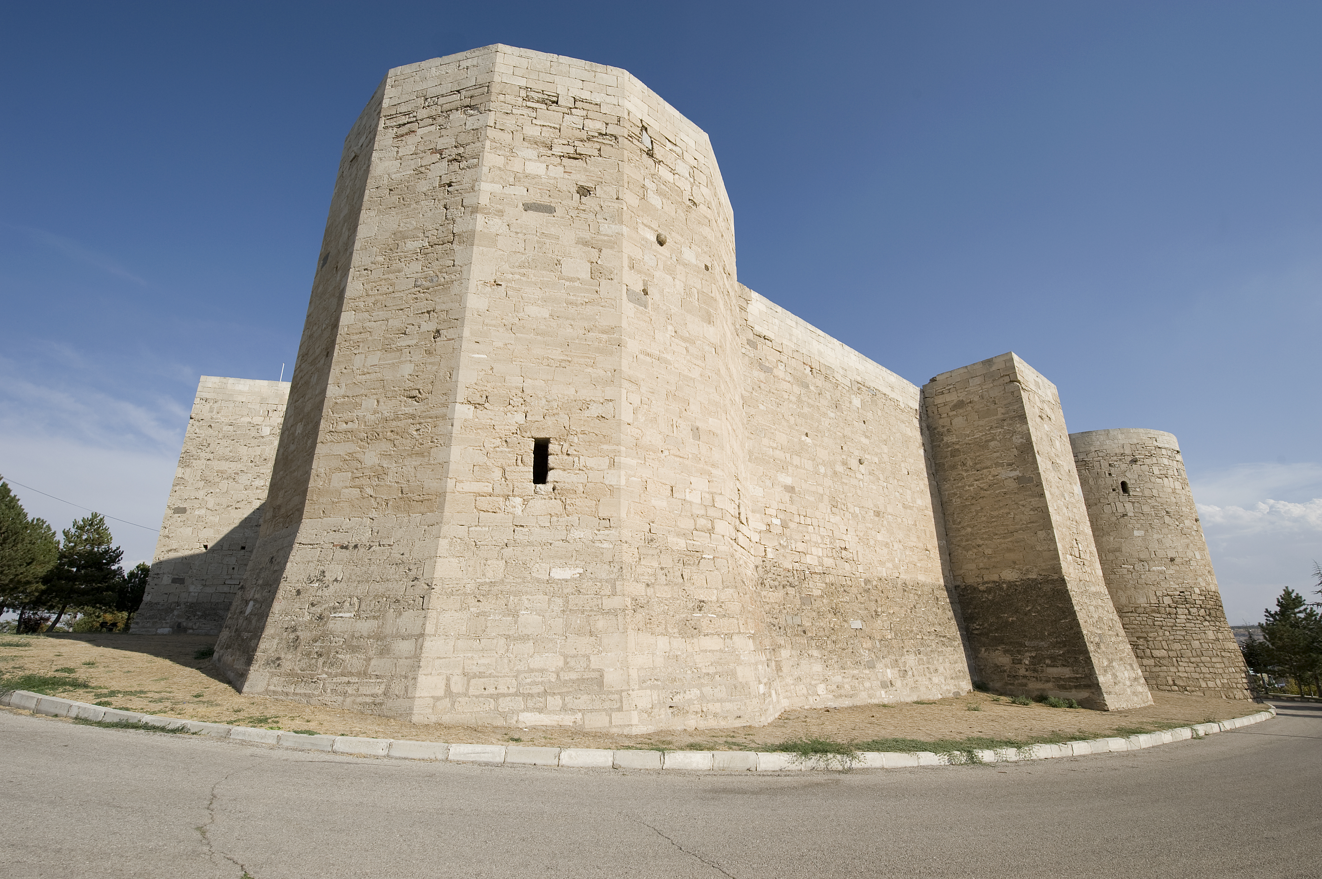 I was taking a rest outside the citadel, which was closed, when a garden worker kindly warned me that the major was visiting the citadel, together with a foreign delegation. So the gate would be opened. I just joined the group, took some pictures and had a short chat with the major, after I told a Dutch representative that in my guidebook there was a reference to medieval houses surrounding the citadel: they had obviously disappeared. Yes, the major explained, they had been demolished 20 years ago (the guidebook is very thorough, but indeed stems from the late 80’s). But he promised that the area near the citadel would be landscaped anew, giving it a more pleasant aspect. Karaman Castle (named ‘Iç Kale’ = Inner Castle) was the citadel of the medieval city. It is built on a slightly elevated hill (maybe a ‘höyük’ = artificial mound, result of long-term human settlement). According to the scarce historical sources, it seems to have been built around the early 12th century (Seljuk era). It has nine towers (four circular and five square ones). Like most fortresses, it has been repaired many times –recent restorations took place in 1961, 1975 and from 2010 on. During Karamanoğlu rule, a double set of city walls were erected: ‘Orta Kale’ (Middle Castle) had two gates and 40 towers and encircled an area with Iç Kale in its very centre. One of those gates (Pazar Kapısı = Market Gate) survived and has been restored. The second city walls ‘Dış Kale’ (Outer Castle) were grand, stretching about 5 km; Evliya Çelebi (1611-1682), the famous Turkish writer/traveller, described them in 1648 as having “140 towers and 9 city gates”. Alas, almost nothing of these remains. Source: ‘Karaman (Tarihi ve Kültürü)’ (Ilhan Temizsoy & M. Vehbi Uysal) – Konya 1981 .